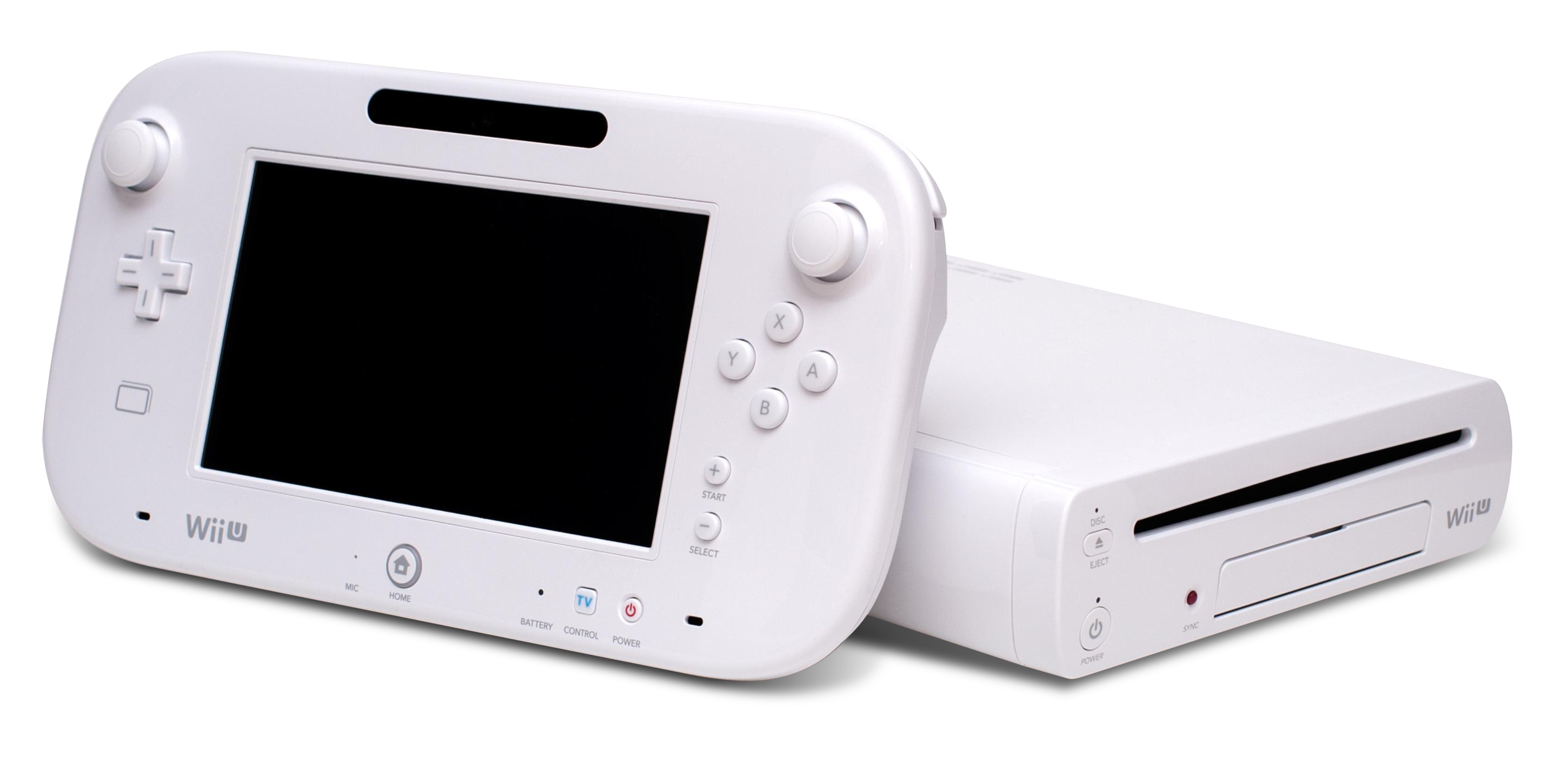 Wii U Console and Gamepad transparent background